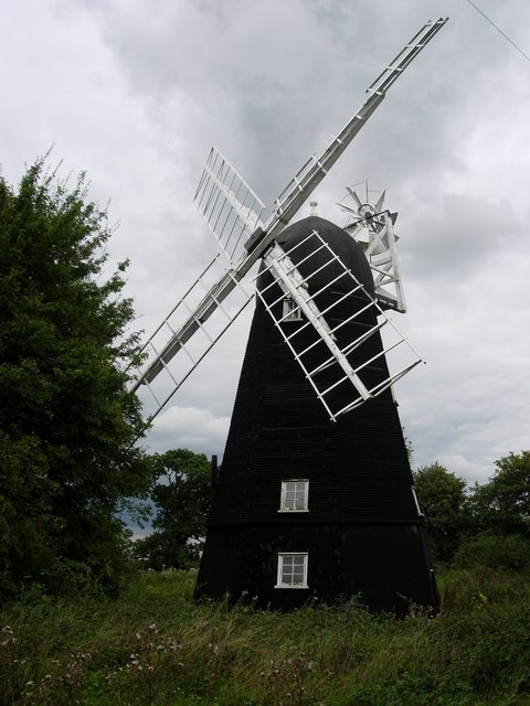 Great Thurlow smock mill, Suffolk